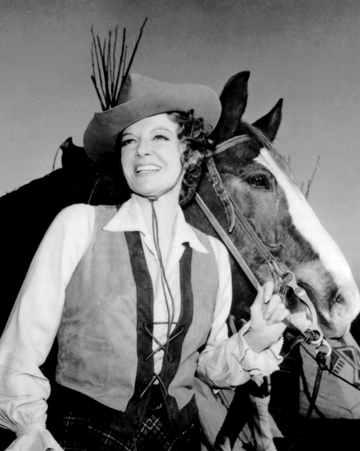 Photo of Ann Sheridan from the comedy series Pistols n Petticoats. The series ran for only about six months; Sheridan became seriously ill during its filming and died two months before the program was canceled.